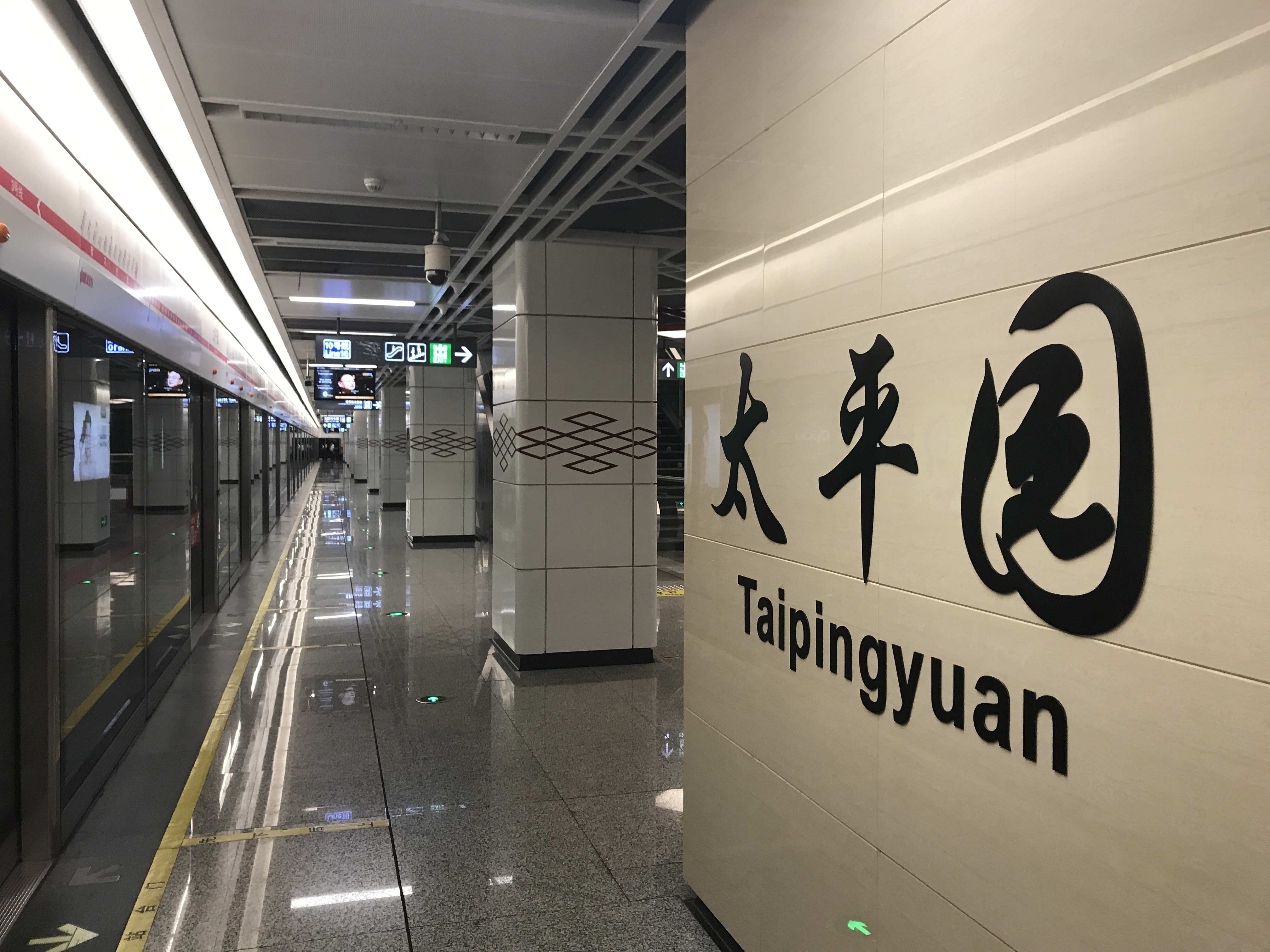 Platform of Taipingyuan Station, Chengdu Metro